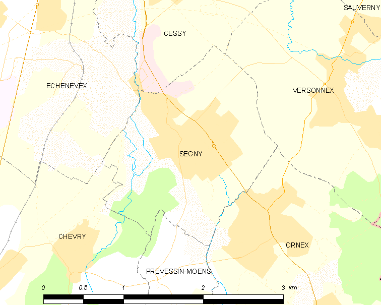 Map of French commune: Ségny Map commune FR insee code 01399.png